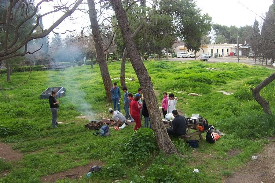 Israeli Scout Ranch